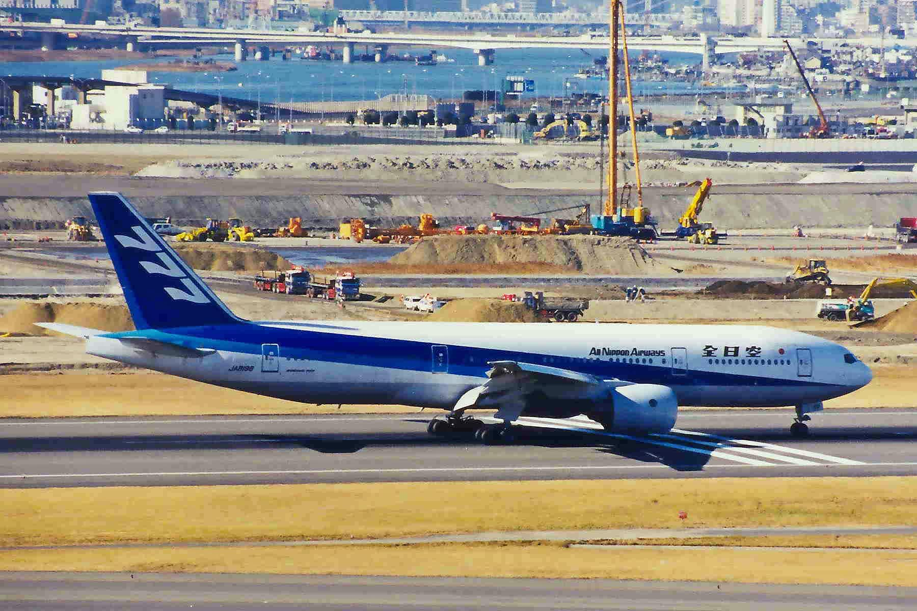 ANA's '777 Tail' c/scheme